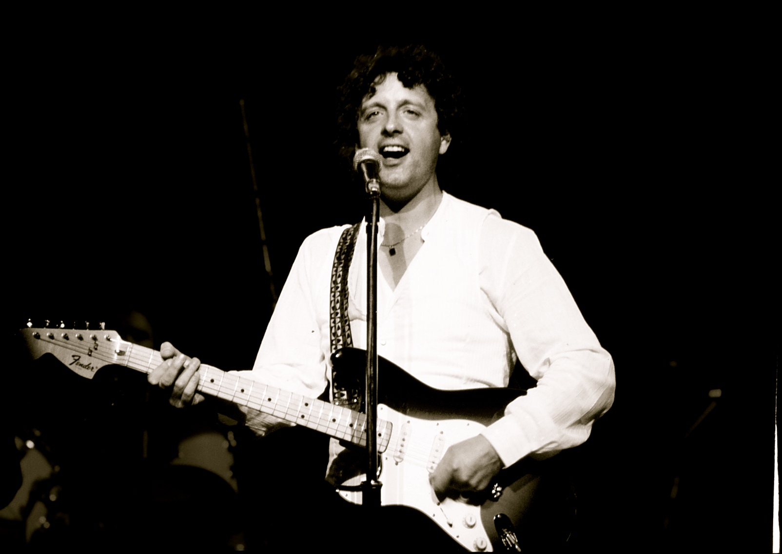 image confirmation of unconventional guitar stringing